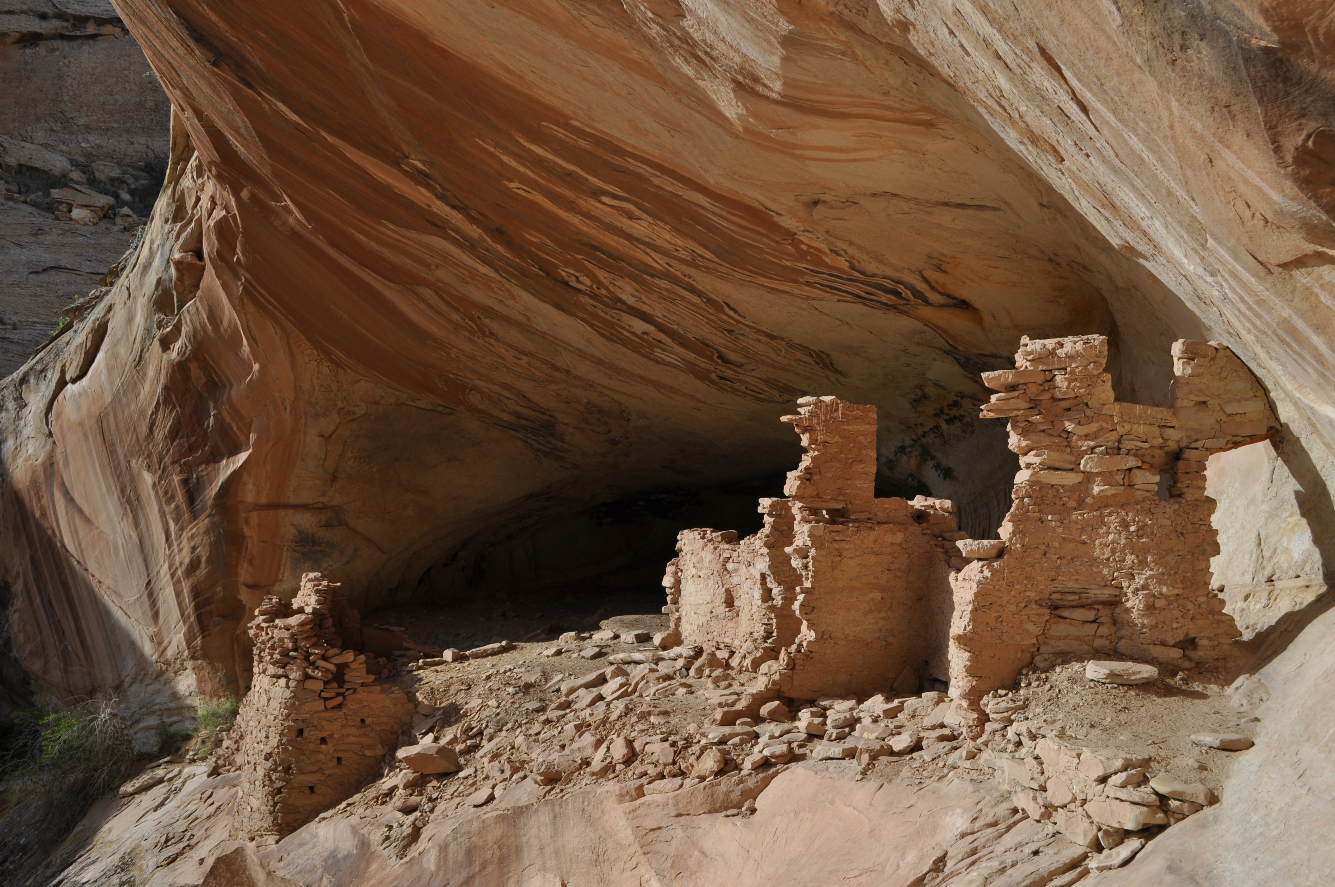 Monarch Cave Ruin cliff dwelling on Comb Ridge outside of Bluff, Utah.